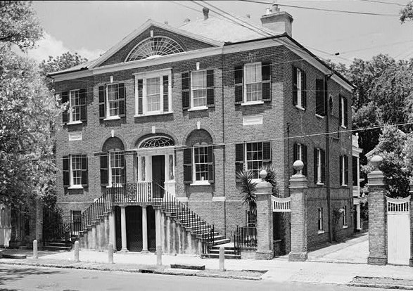 William Blacklock House, 18 Bull Street, Charleston, Charleston County, South Carolina, SOUTH view. Cropped to remove border.